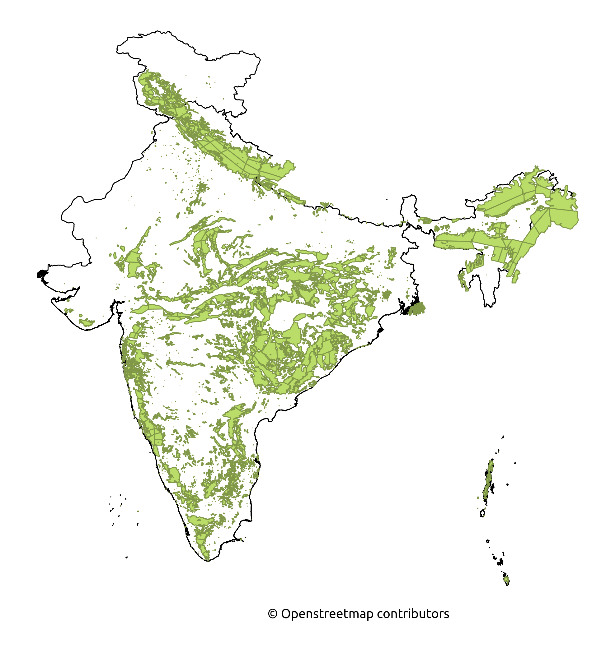 Indian Forest cover created using Openstreetmap data(map as on February 2015).